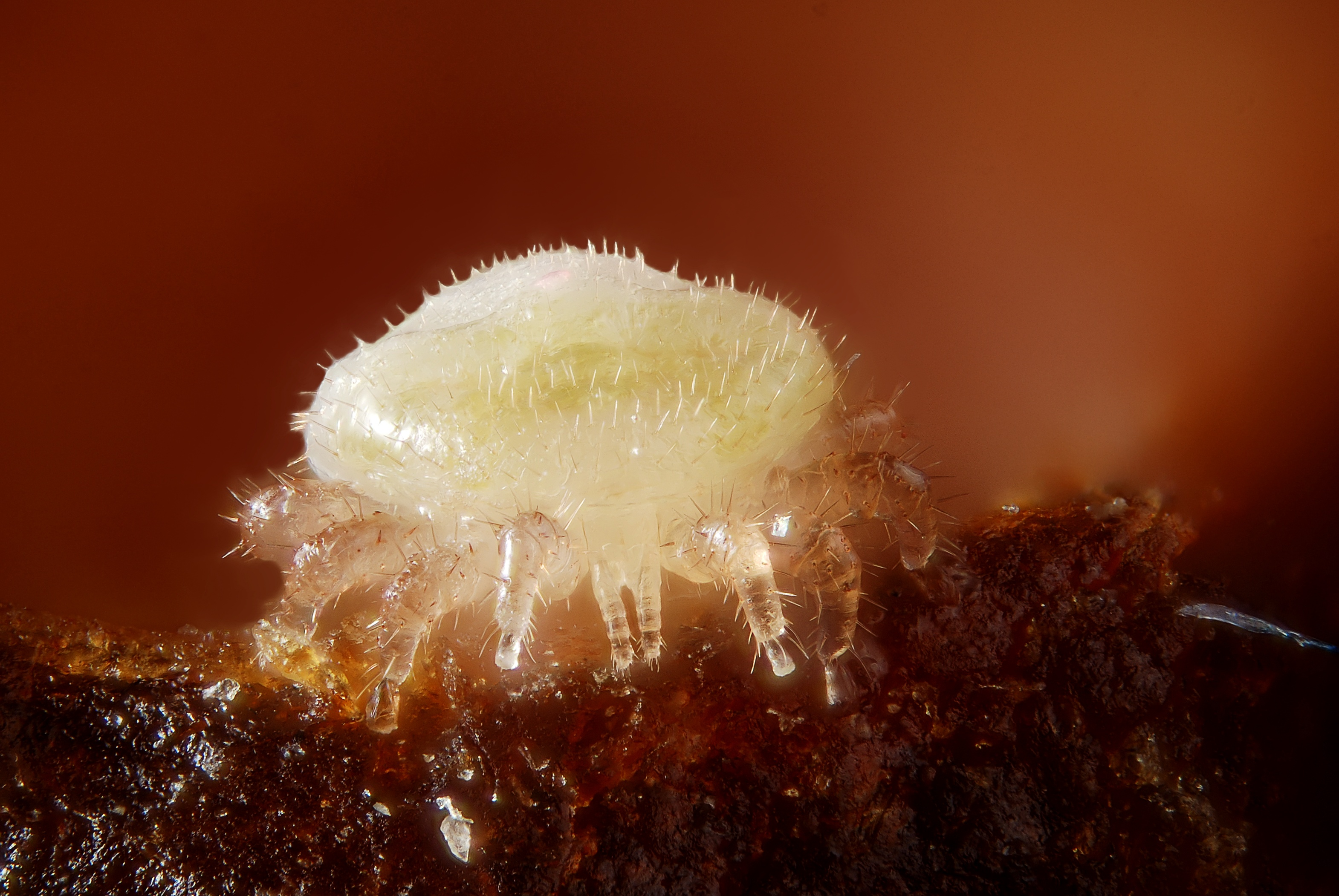 An adult male of Varroa destructor, a mite parasiting the domestic bee (honeybee - Apis mellifera). Frontal view. Scale : mite width = 0.8 mm Technical settings : - focus stack of 41 images - microscope objective (Nikon achromatic 10x 160/0.25) on 100 mm extension tubes + adapter With thanks to Christoph Bosch and Bettina Ziegelmann for ID advice